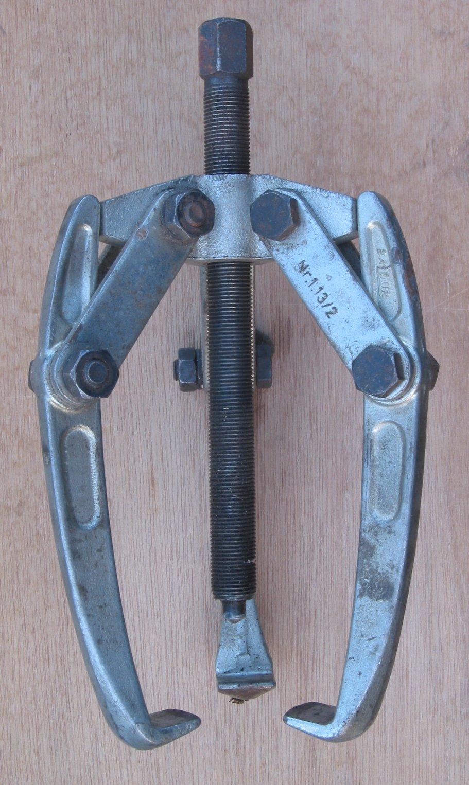 Gear puller